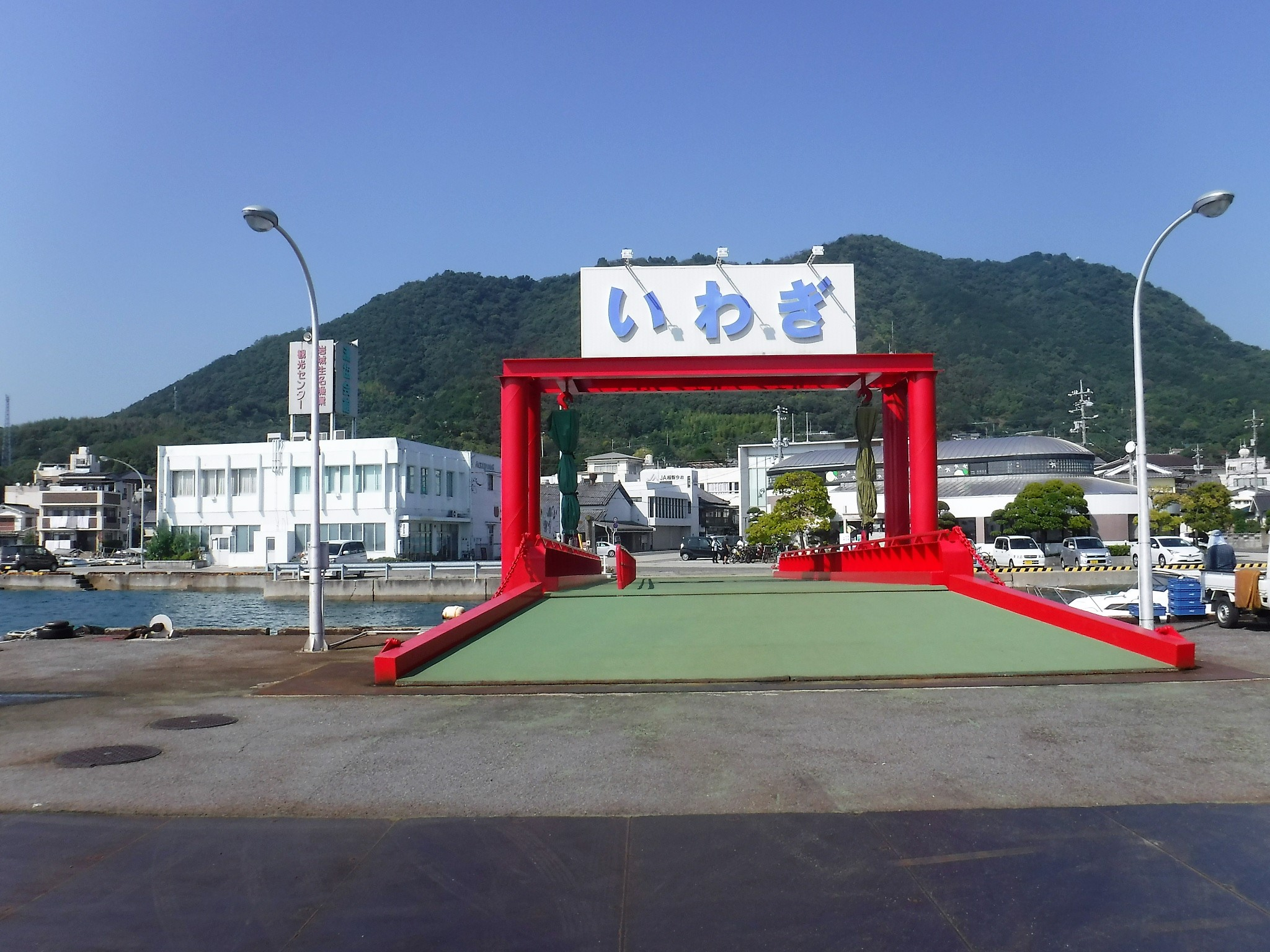 IWAKI-Harbor, IWAKI-Island, Ehime-pref, JANAN